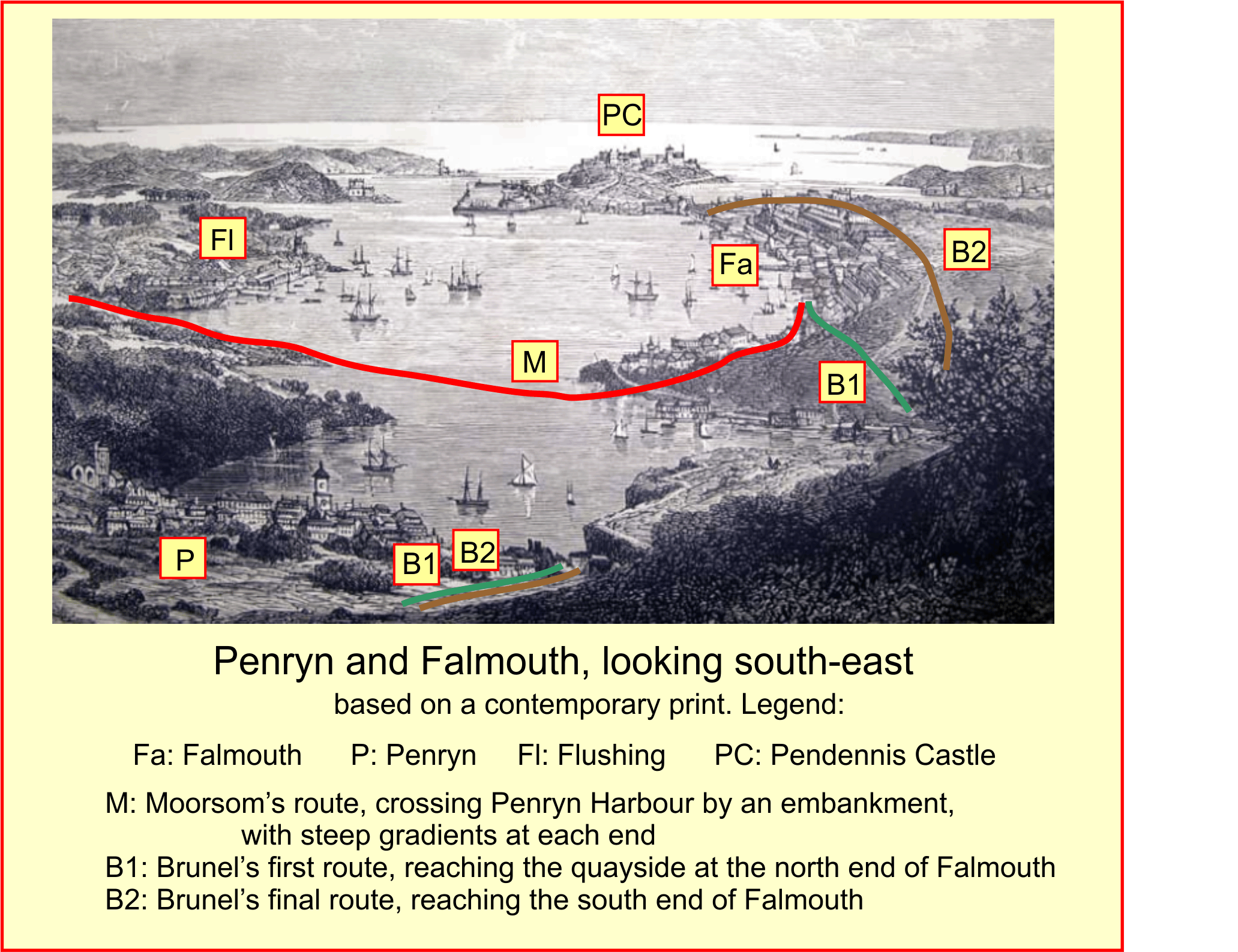 Print of Falmouth Harbour, England in 19th c showing planned routes of Cornwall Railway